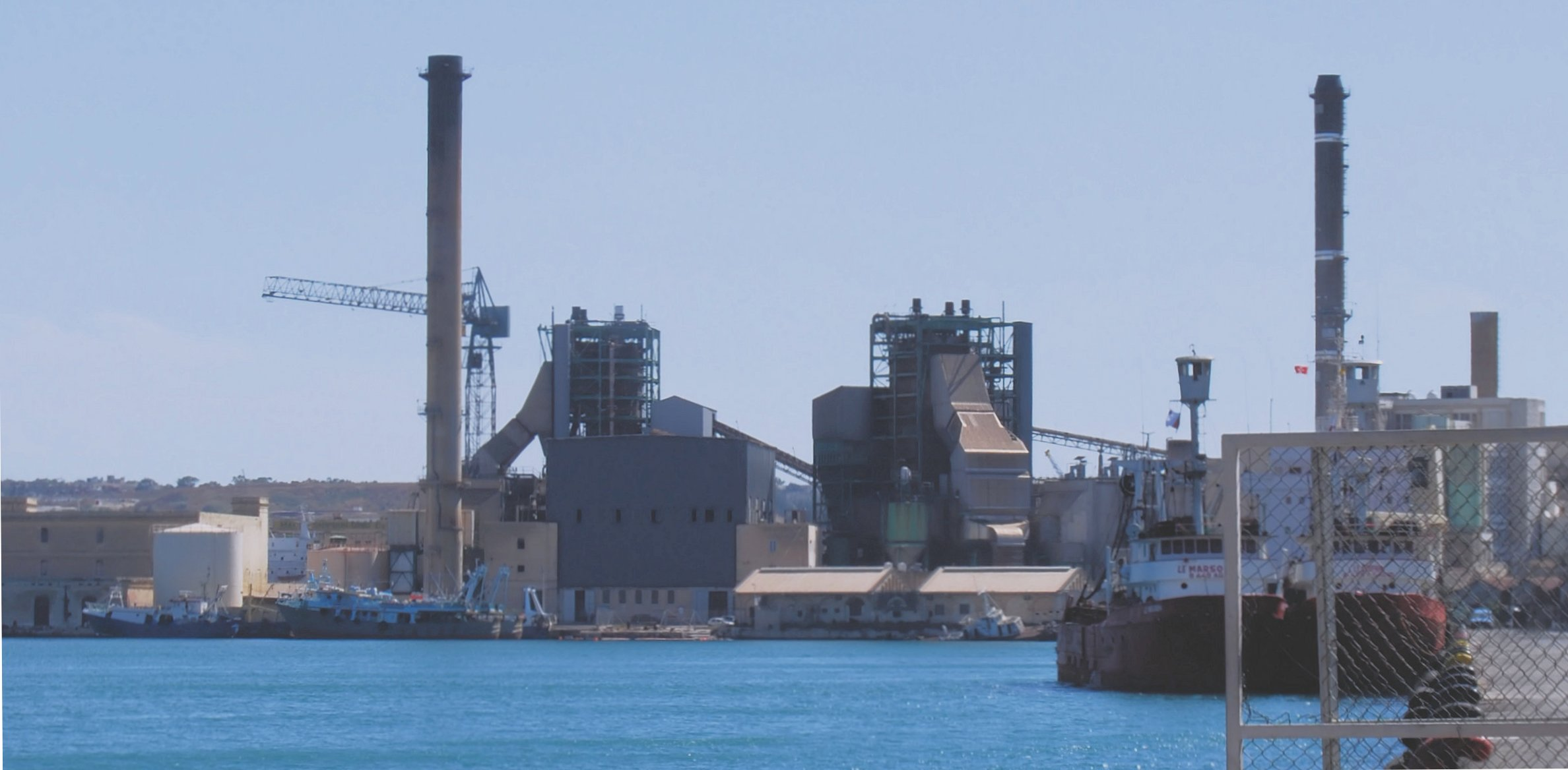 The oil-fired Marsa Power Station near Marsa at the end of Grand Harbour, Malta with a maximal power of 267 MW. It was connected to electricity grid in 1966 and is operational since then.